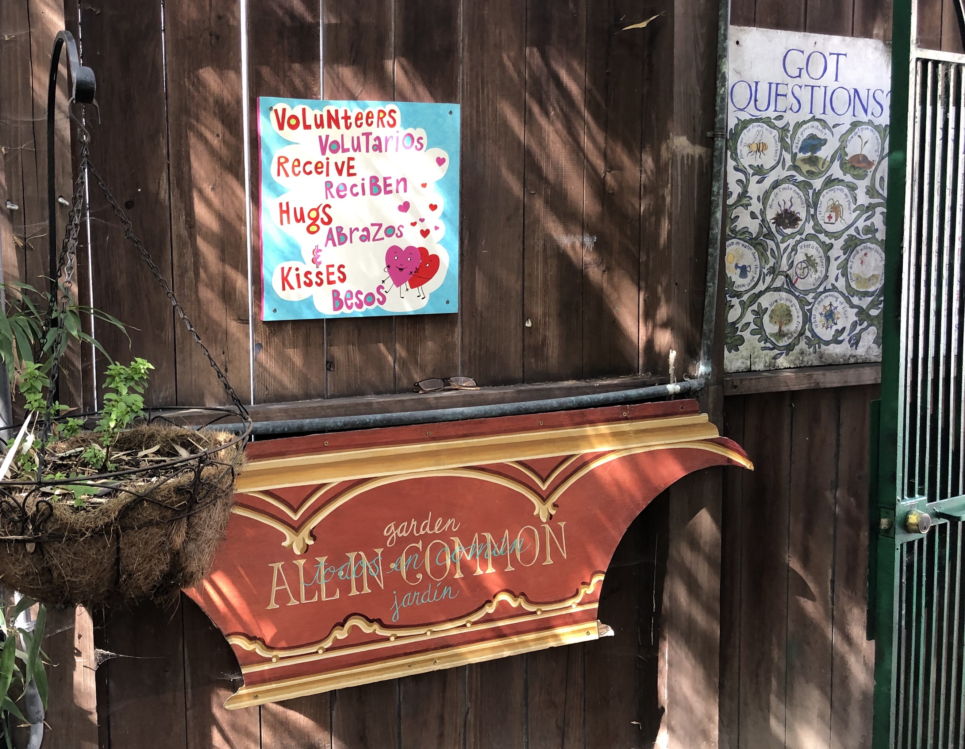 Garden signs at the community garden belonging to the group formerly known as the Kaliflower Commune. 23rd St and Shotwell St in San Francisco.